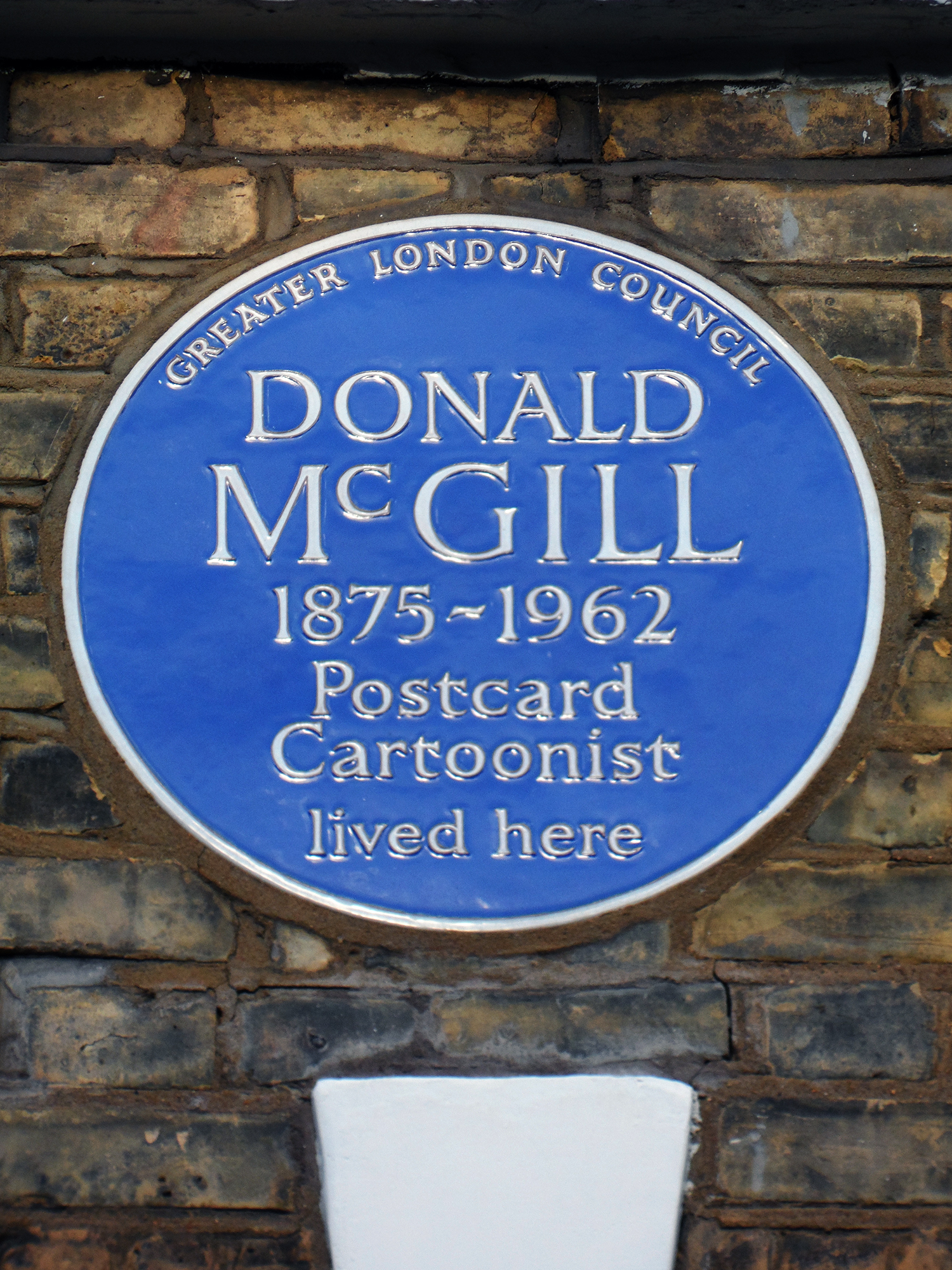 Blue plaque erected in 1977 by Greater London Council at 5 Bennett Park, Blackheath, London SE3 9RA, London Borough of Greenwich